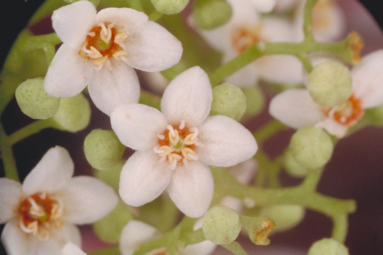 Flindersia braylelana